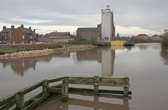 River Ouse at Selby Looking west from Selby swing bridge.